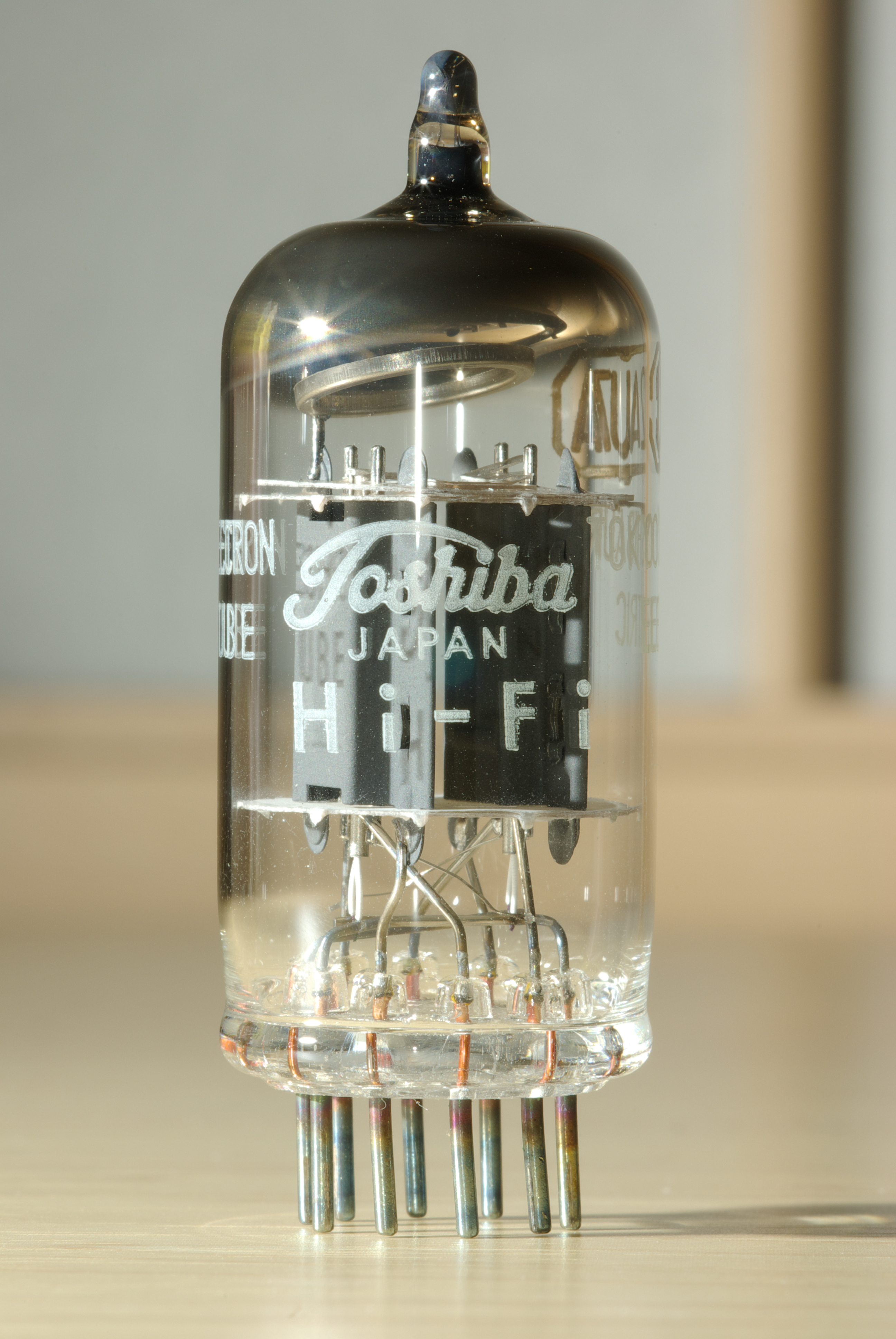 Toshiba electron tube 12AU7A Hi-Fi